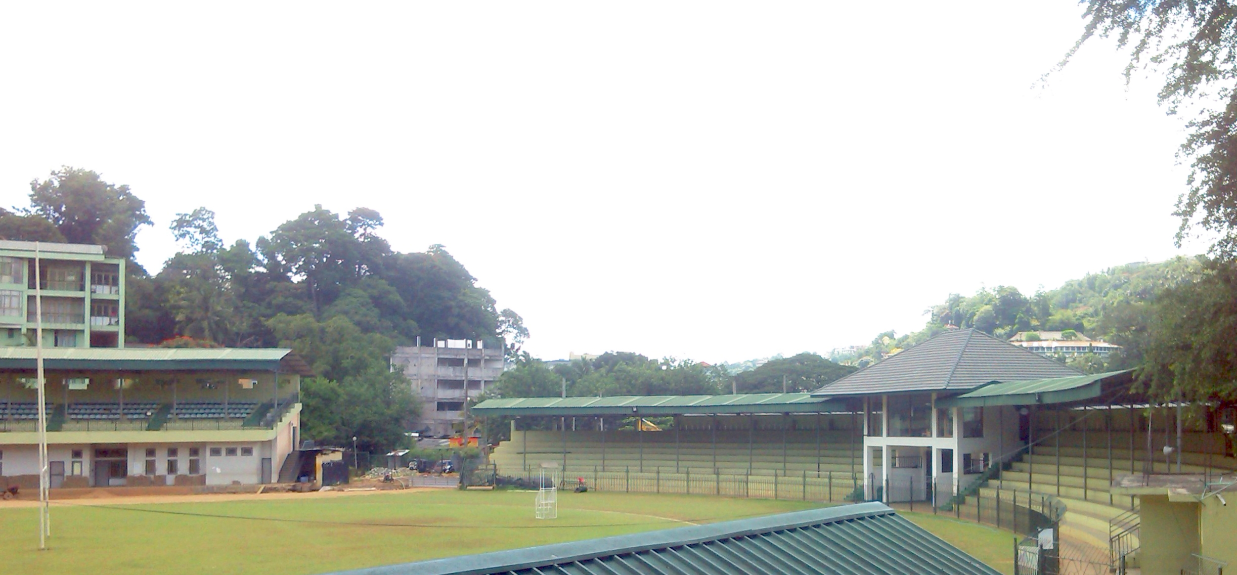 Bogambara stadium side pavilion